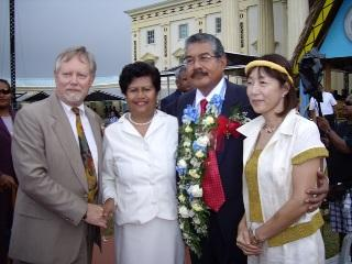 Charge Bezner (left), Palau First Lady Valeria Toribiong (center left), President Johnson Toribiong (center right) and Charge Bezner’s wife, Kuniko Yasuda (right) at the inauguration of President Toribiong on January 15, 2009.